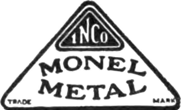 International Nickel Company (INCO) Monel Metal logo extracted from 1920s advertisement. This logo may also be found stamped on products manufactured from monel.